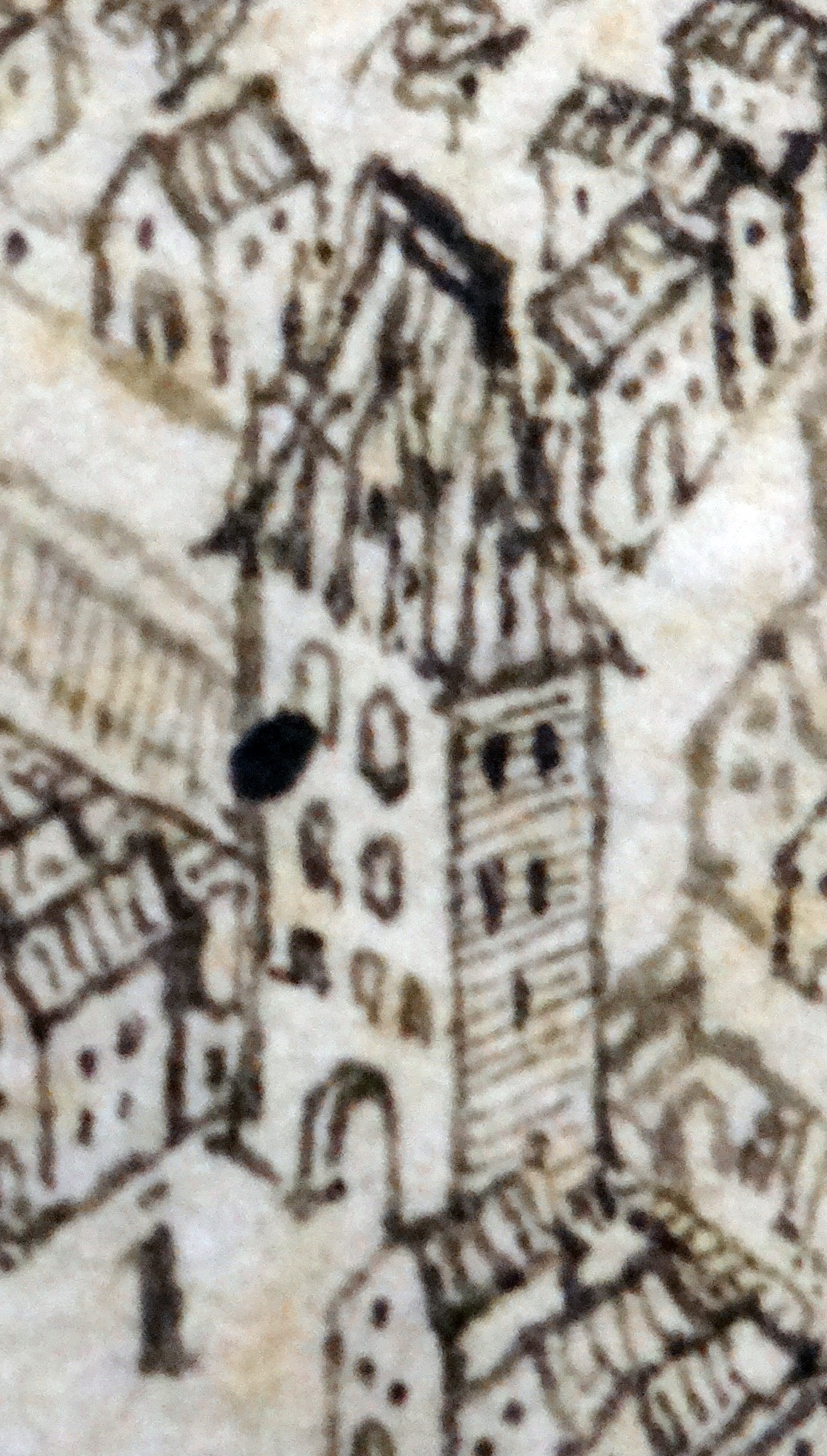 Neupforte, Worms. Detail aus: Peter Hamman: Statt Wormbß wie selbige 1631 vor dem Schwedischen Ruin der Vorstätt [...] verblieben. Stadtarchiv Worms, Abt. 1B, Nr. 48.